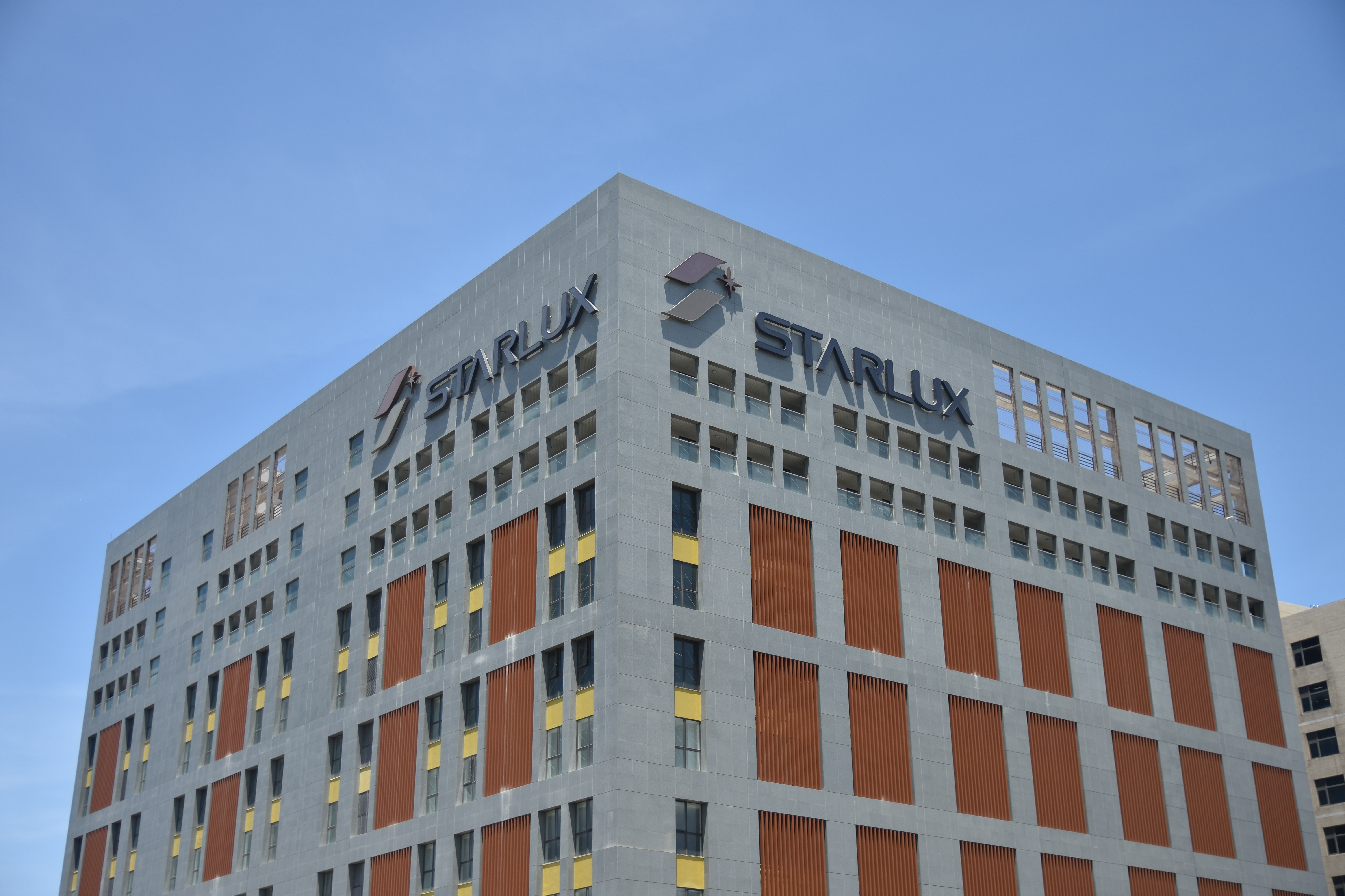 中文（台灣）: STARLUX Airlines Headquarters (Taoyuan)